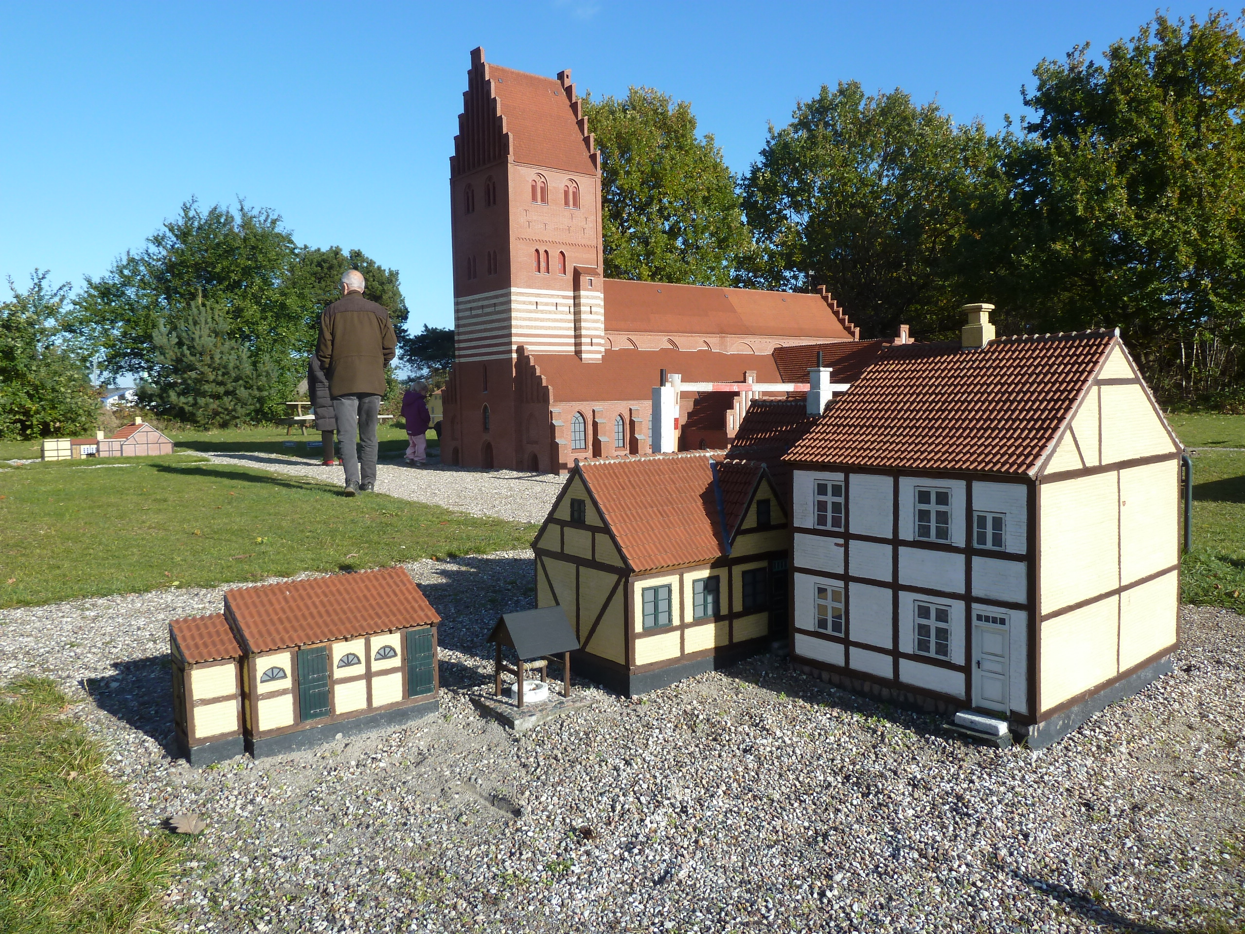 The miniature town Kjøge Mini-By in Køge, Denmark.